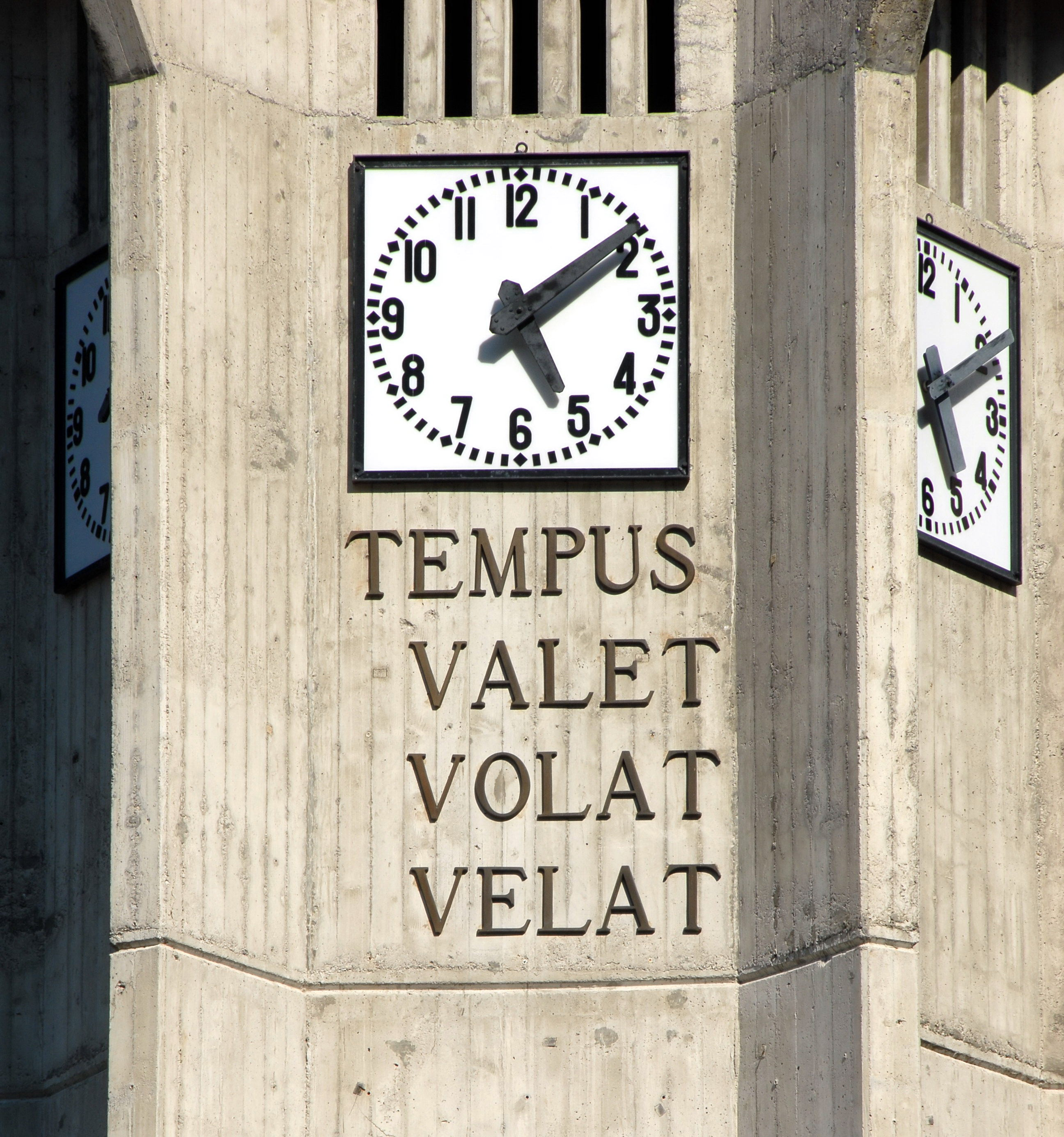 Steeple with clock of the parisch church Saint Martin at Resiutta in the Fella valley / Canal del Ferro / Friuli-Venezia Giulia / Italy / EU. Inscription: TEMPUS VALET VOLAT VELAT.